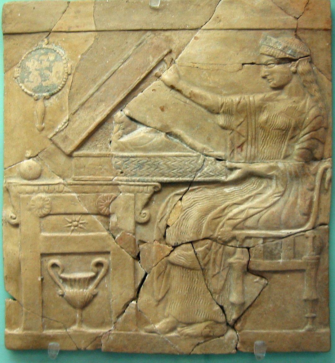 Pinax of Persephone opening the "Liknon Mystikon". Found in the holy shrine of Persephone at Locri in the district Mannella. Locri was part of Magna Graecia and is situated on the coast of the Ionian Sea in Calabria in Italy.